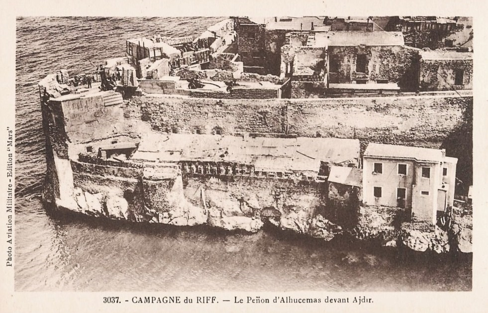 Aerial view of the southern half of the Peñón de Alhucemas during the Rif War. The Peñón suffered some attacks launched from the nearby rebel-held coast and a few field guns are visible. Contemporary photo postcard.